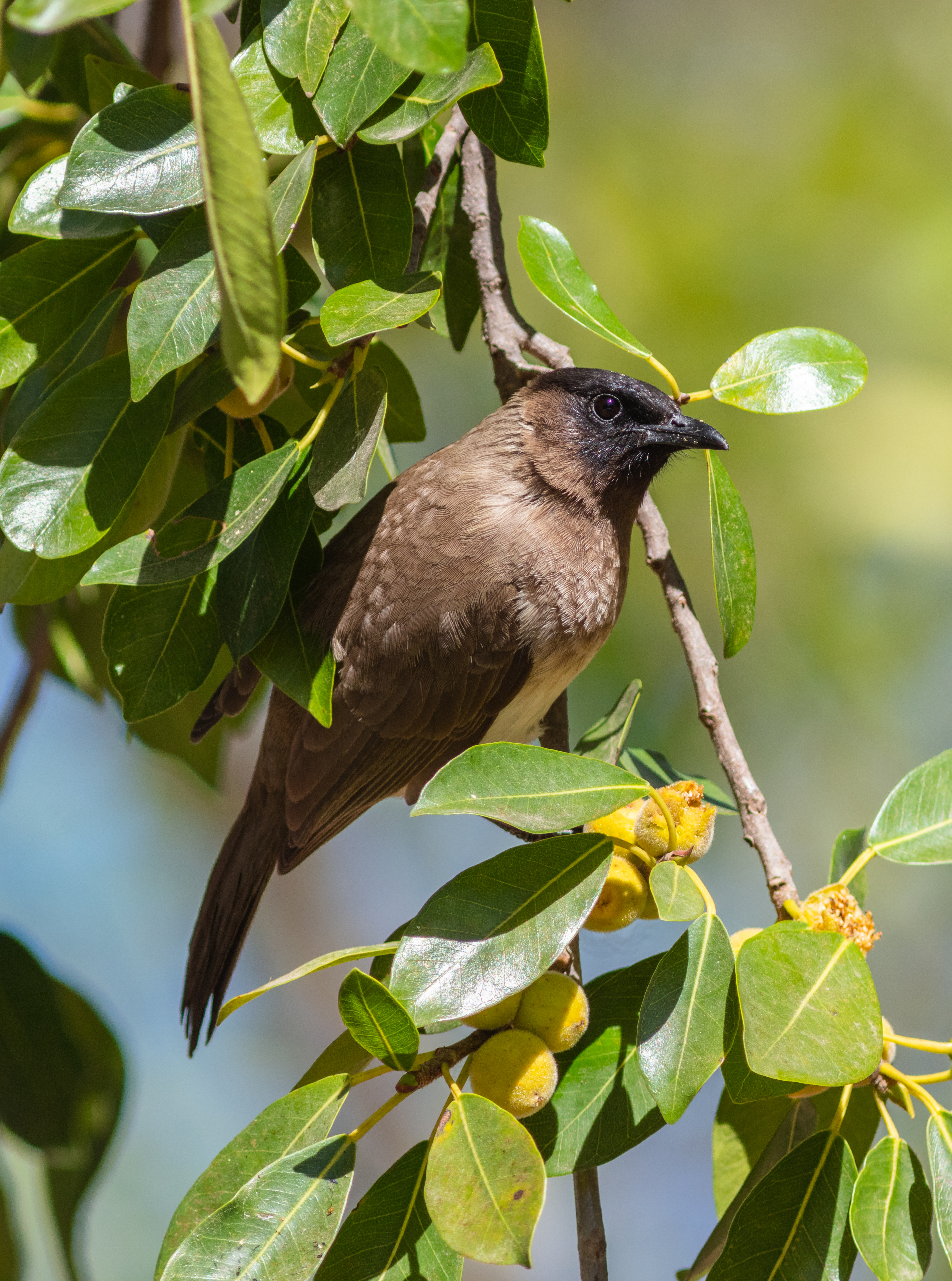 Dark-capped Bulbul (Pycnonotus tricolor), Kruger National Park, South Africa